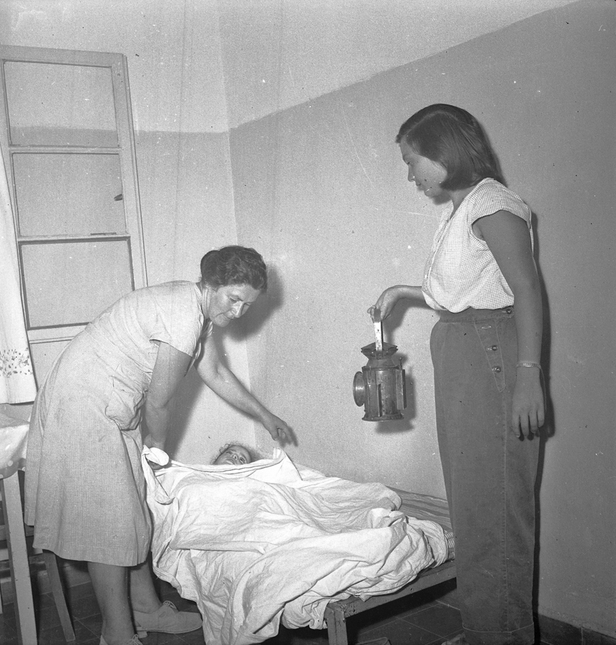 Givat Brenner, Education in Israel